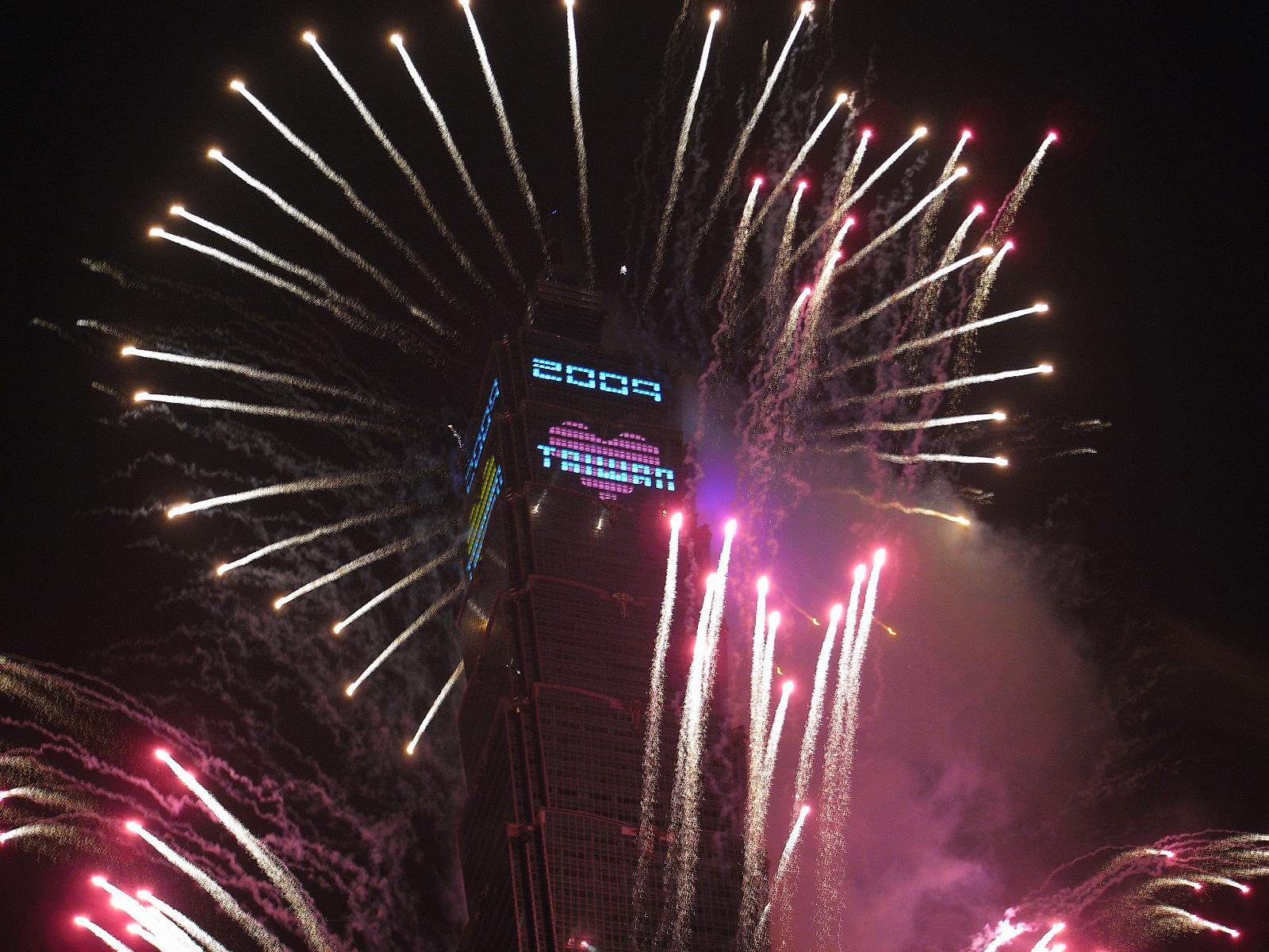 2009 Taipei 101 Love Taiwan Firework.